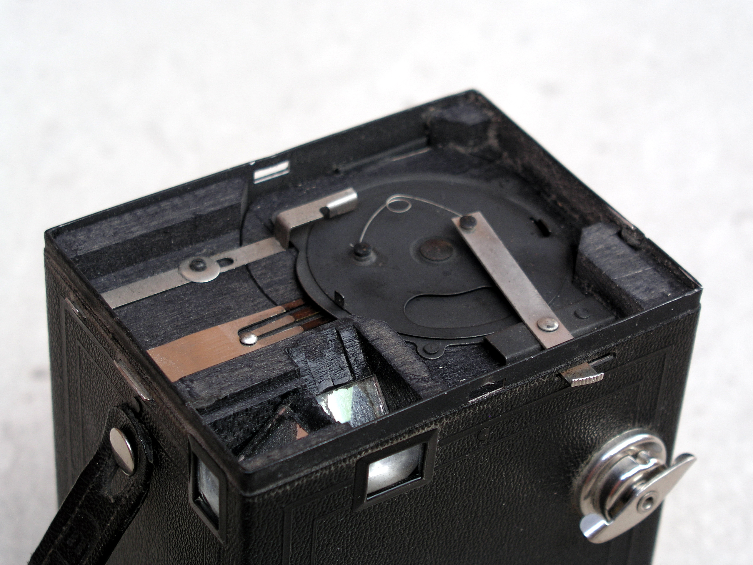 Kodak Brownie camera, shutter detail 2.